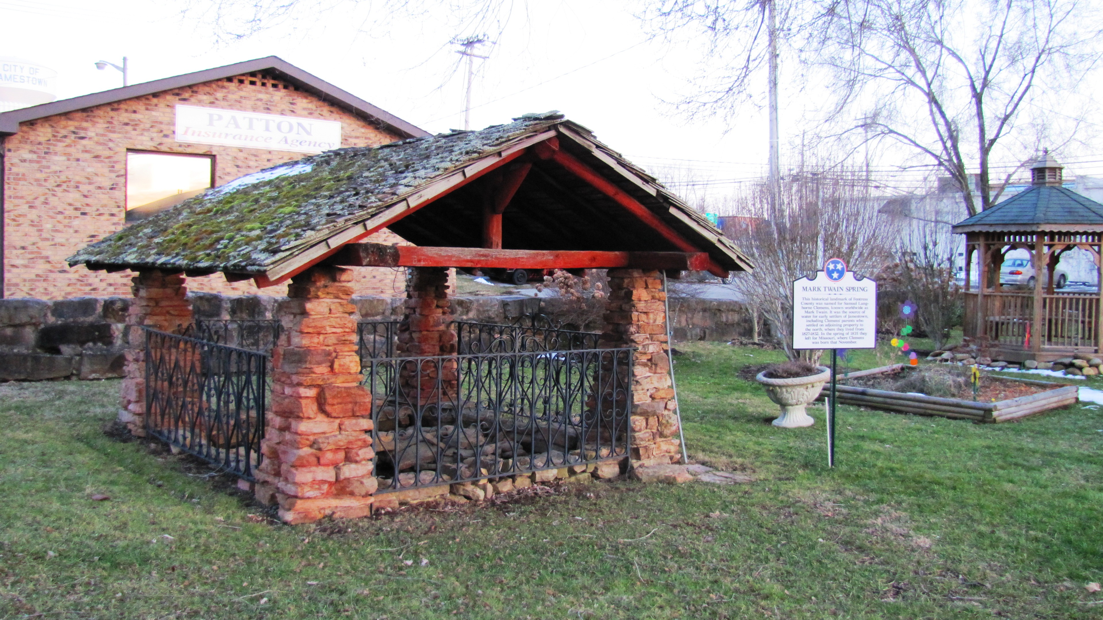 The "Mark Twain Spring" in Jamestown, Tennessee, USA. Twain's parents lived just north of the spring from 1827 to 1832, before moving to Missouri.